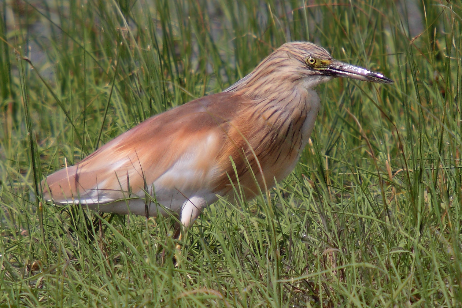 Squacco heron in flooded area at Kalloni salt pans, Lesvos, Greece